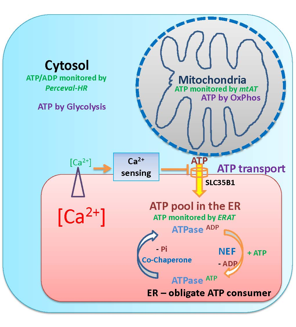 Cytosolic Ca2+ increases inhibits ATP transport into the ER.